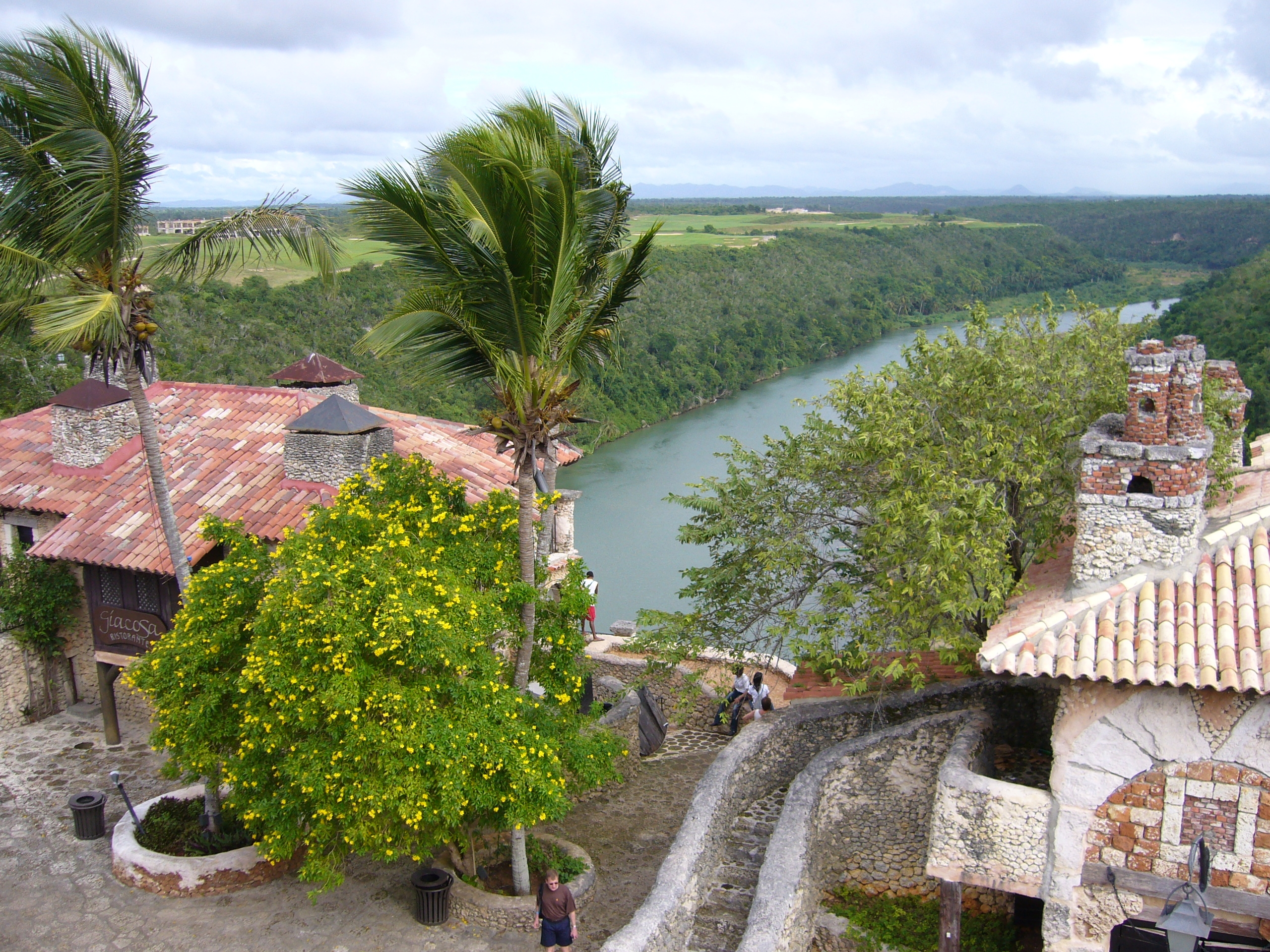 View of Altos de Chavón on the Rio Chavón, dominican Republic